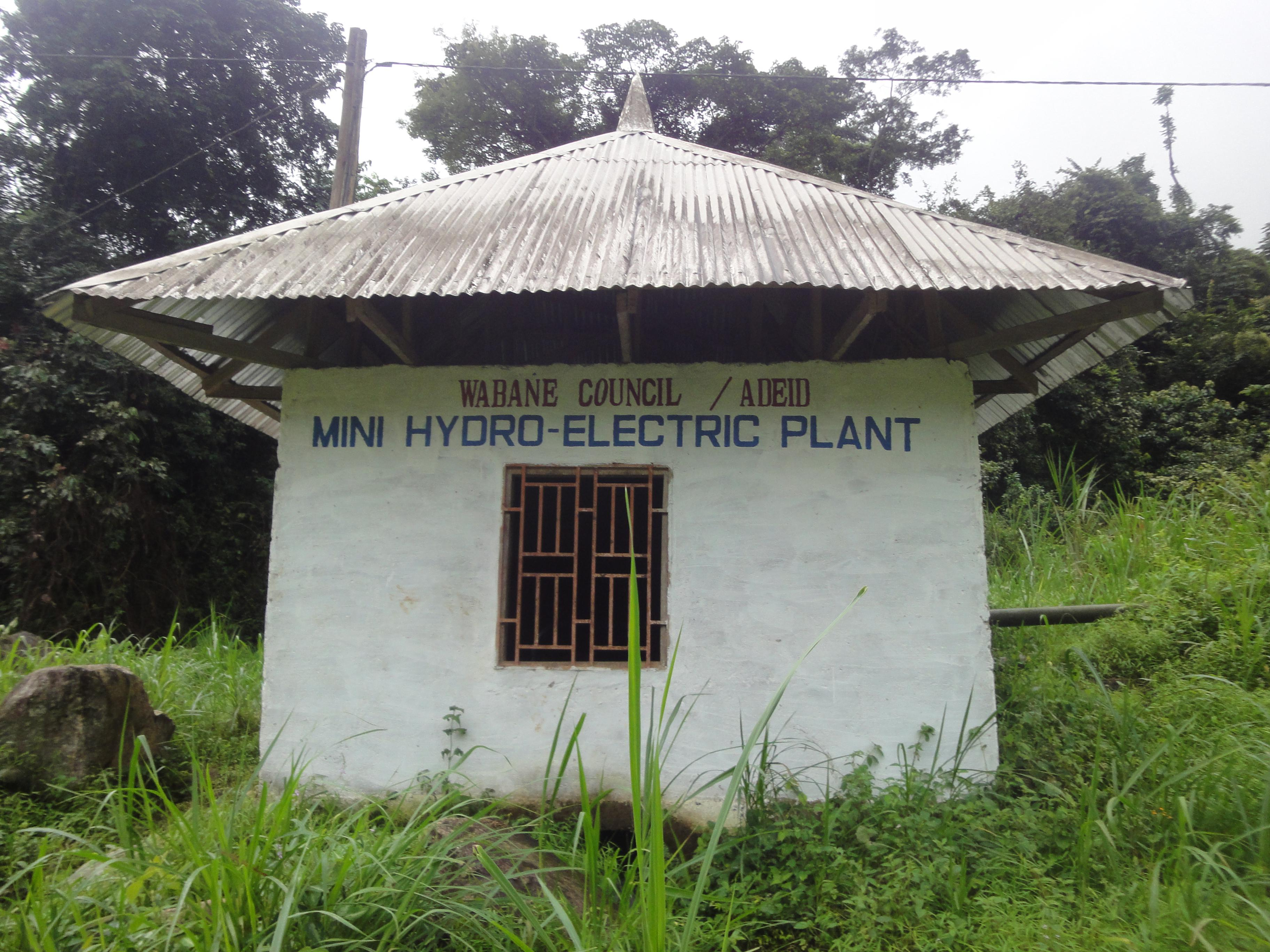 Hydro power plant in Alongkong (Wabane), Southwest Region of Cameroon